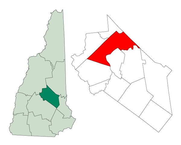 Map of a municipality in Belknap County, New Hampshire